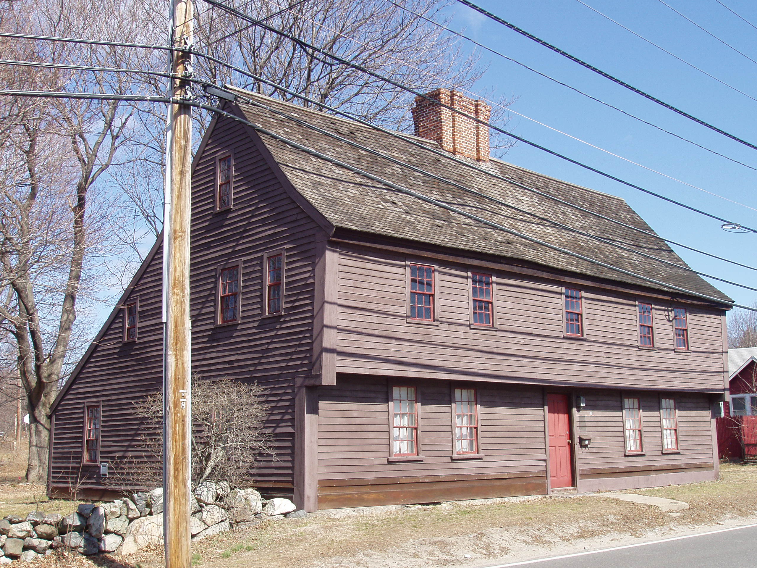 Boardman House - general view. This photograph was taken by me, in Saugus, Massachusetts, March 2006.